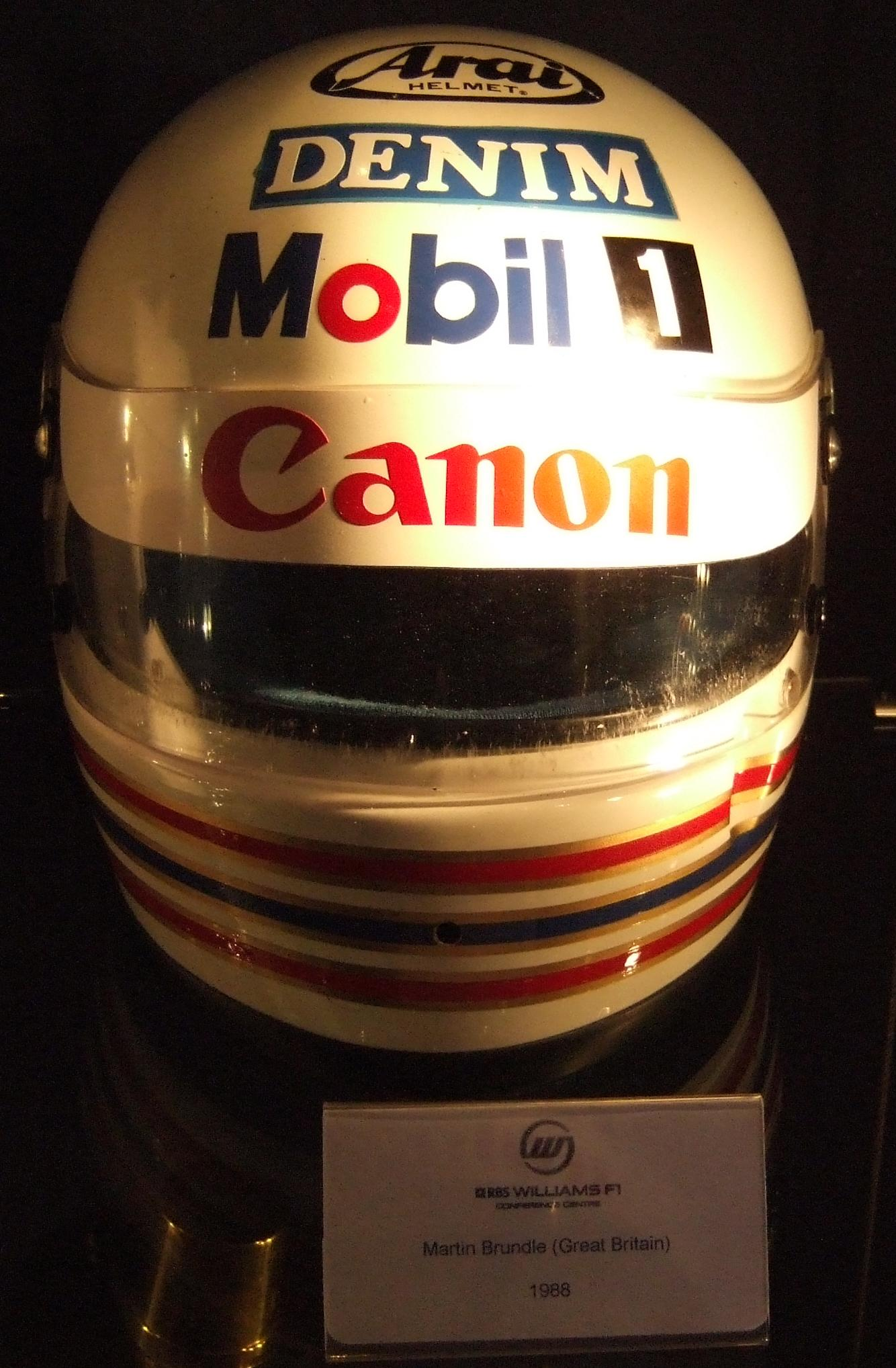 Martin Brundle's helmet as a Williams test driver.